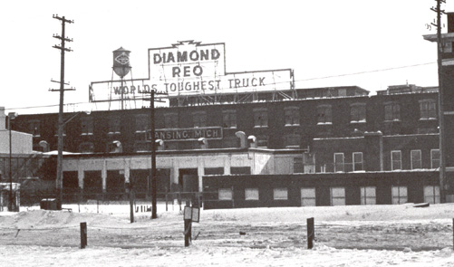 A view of the REO Motor Car Company plant in Lansing, Michigan. The building was a National Historic Landmark until 1985; landmark status was withdrawn due to the plant's demolition in 1980.